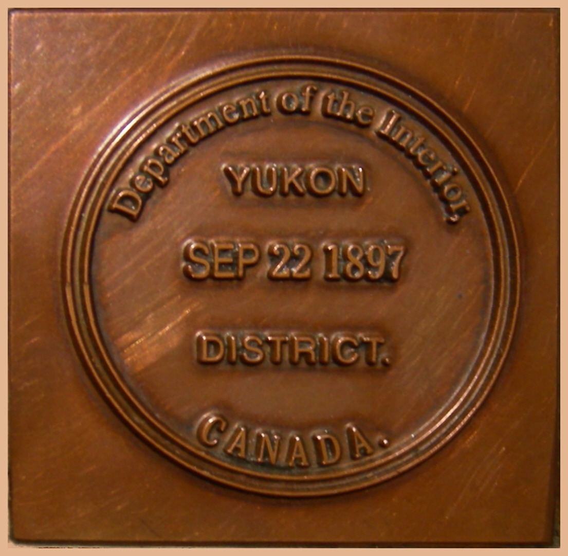 One of several places where visitors to the Seattle unit of the Klondike Gold Rush National Historical Park (a museum) can take rubbings of seals used in assaying gold.